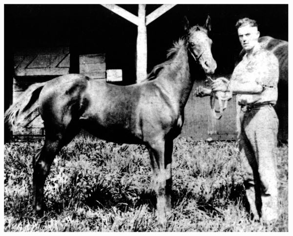 Racehorse Man o' War with trainer J. Bryan Martin.